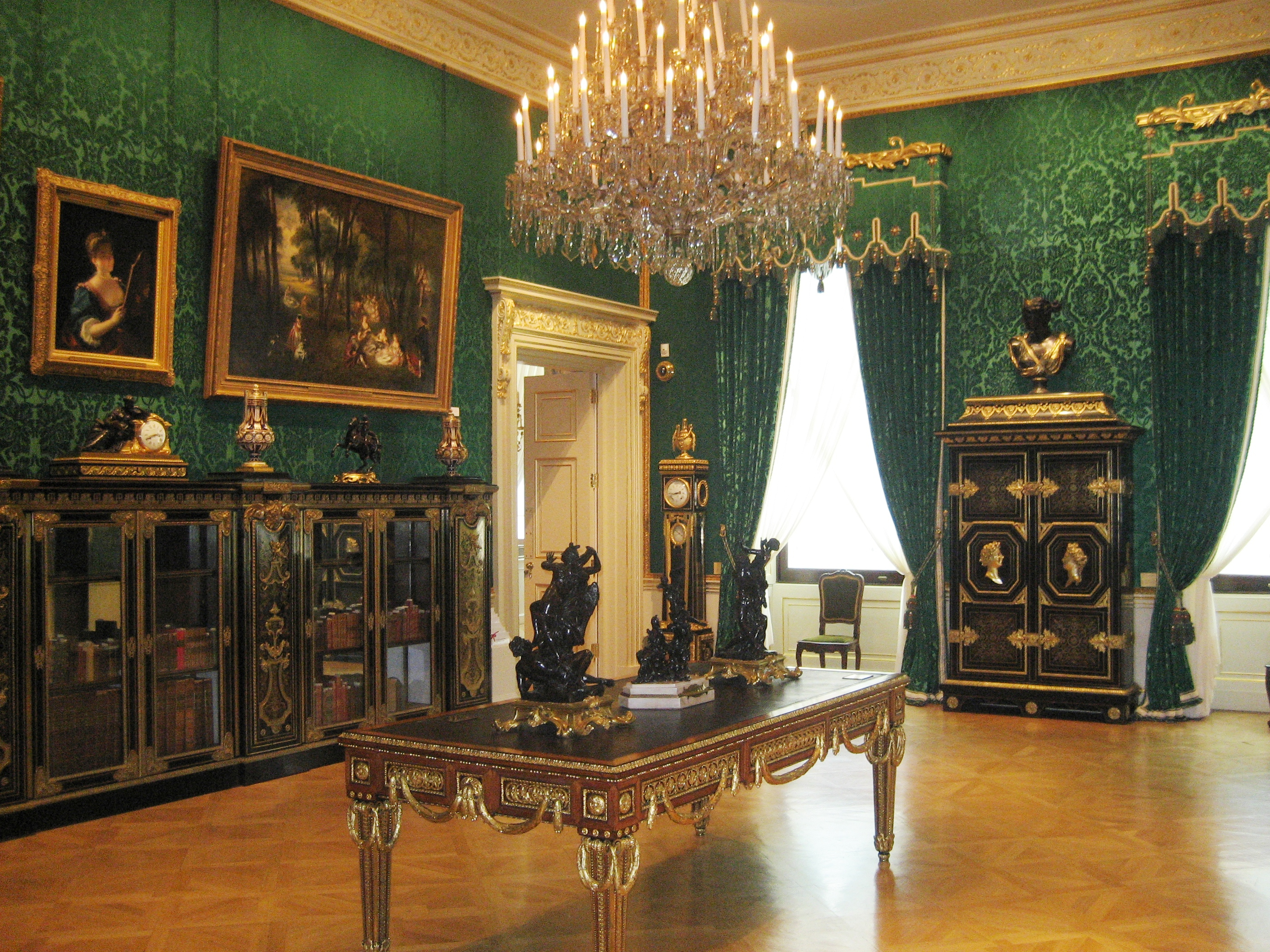 Back State Room, Wallace Collection, London